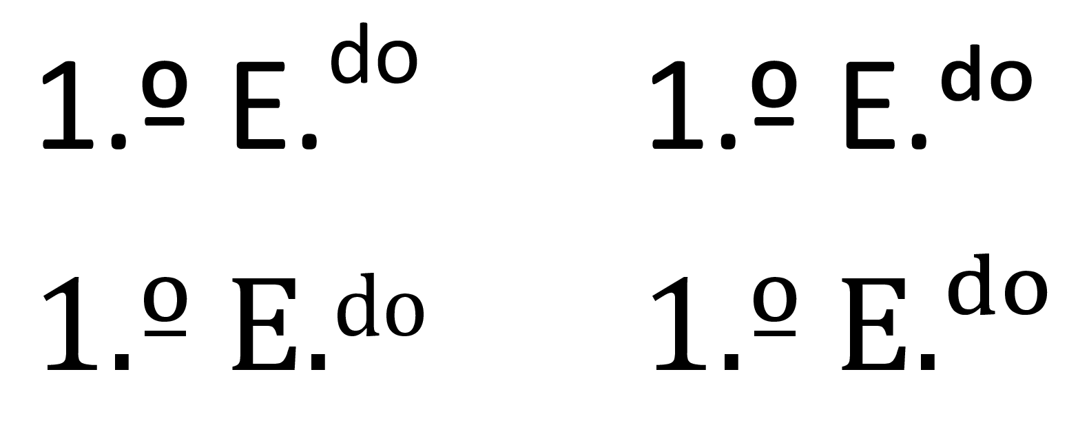 Difference between artificially rendered superscript (text processor command “superscript”) and true Unicode superscripts.